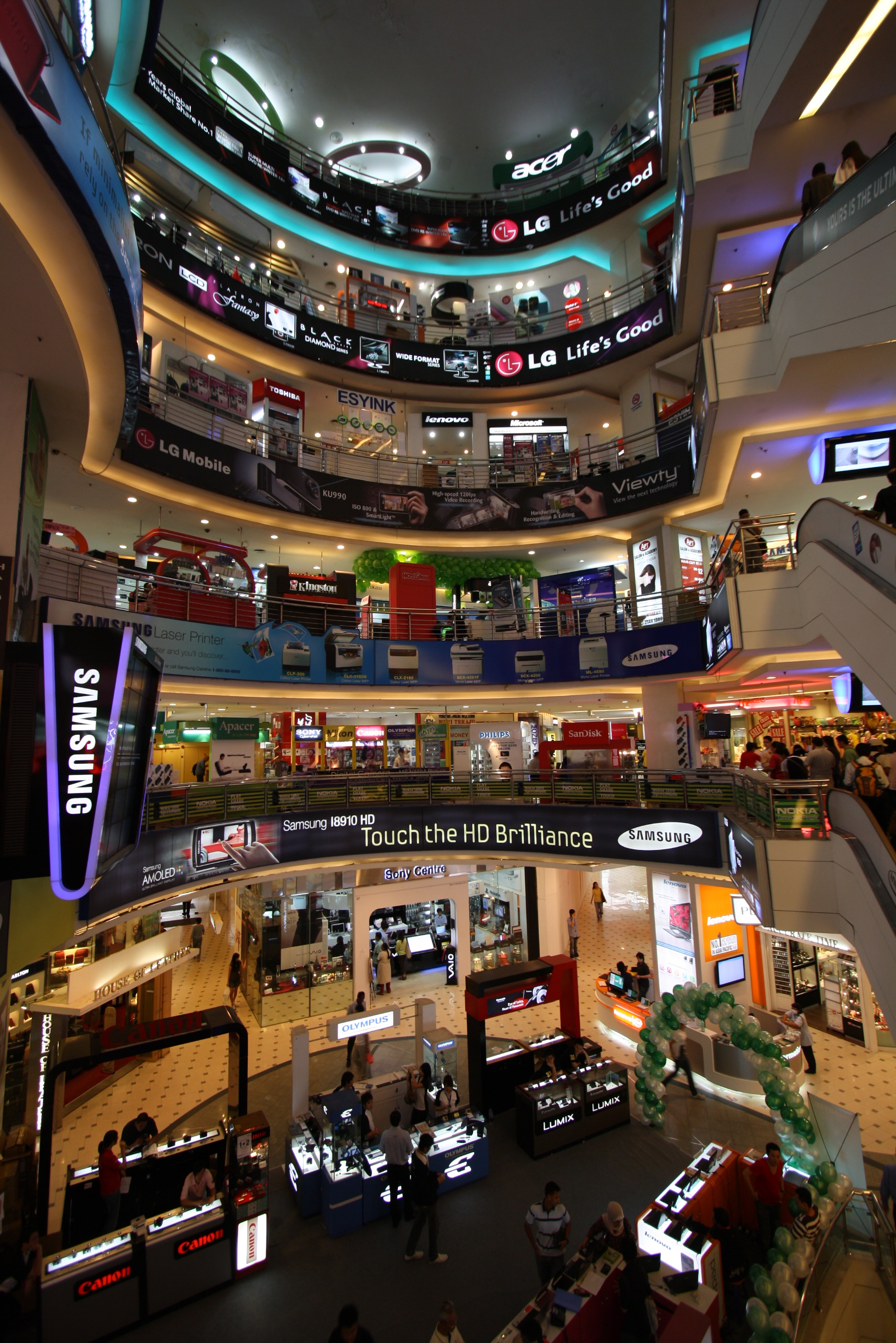 Low Yat Plaza interior1